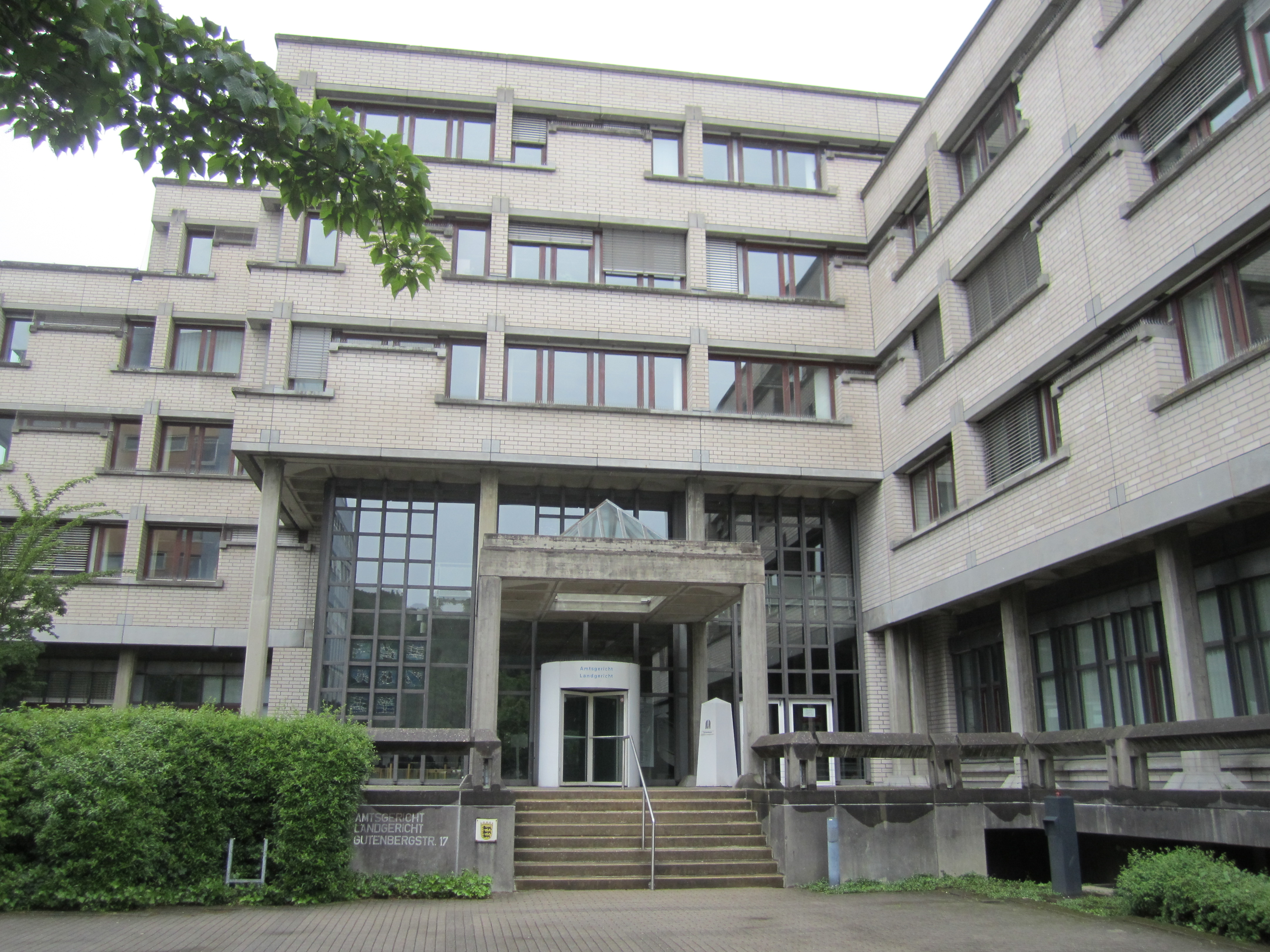 Landgericht Baden-Baden, Germany.